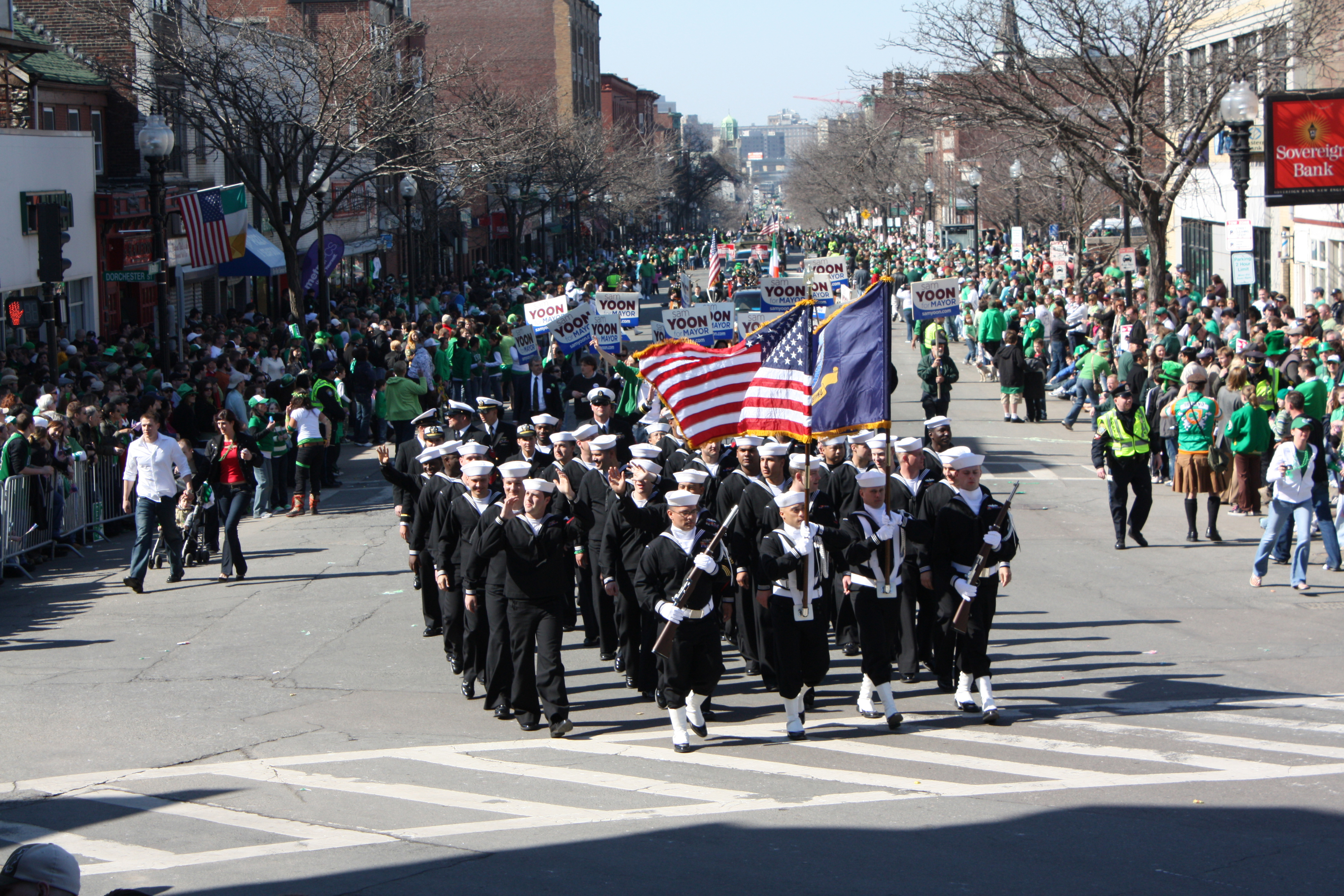 BOSTON (March 15, 2009) A crowd along a parade route in South Boston cheers Sailors from the guided-missile frigate USS Taylor (FFG 50) as they march in the 108th Annual St. Patrick's Day Parade celebrating Boston's Irish heritage. Sailors assigned to Taylor are on a five-day port visit to Boston. (U.S. Navy photo by Chief Mass Communication Specialist Dave Kaylor/Released)